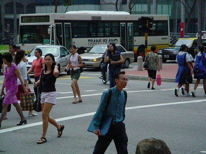 Pedestrians in the city centre of Singapore. By Timo Sippala 2002